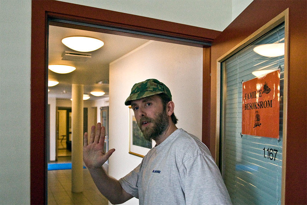 Varg Vikernes in prison